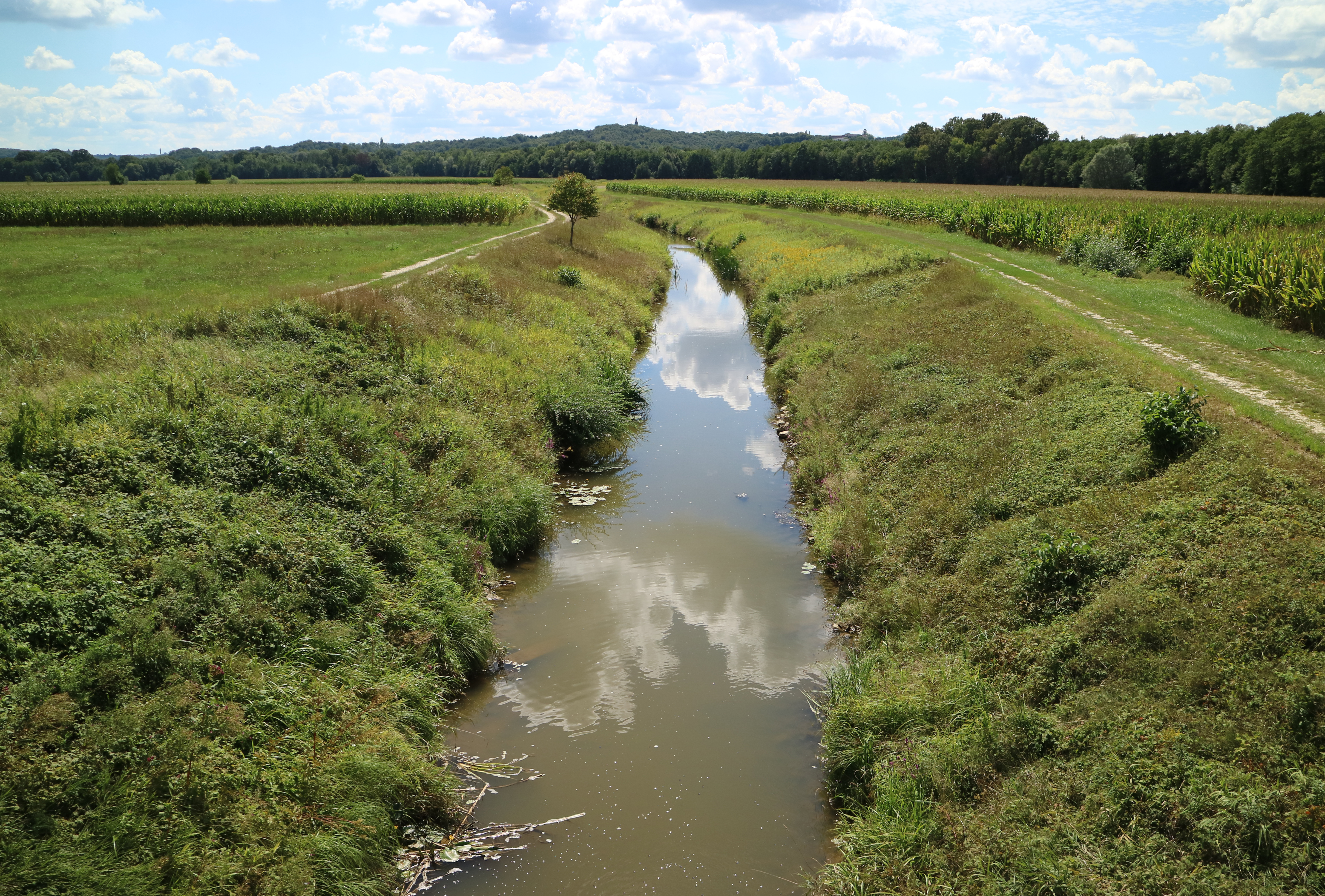 Ščavnica at Slaptinci, Slovenia, view downriver